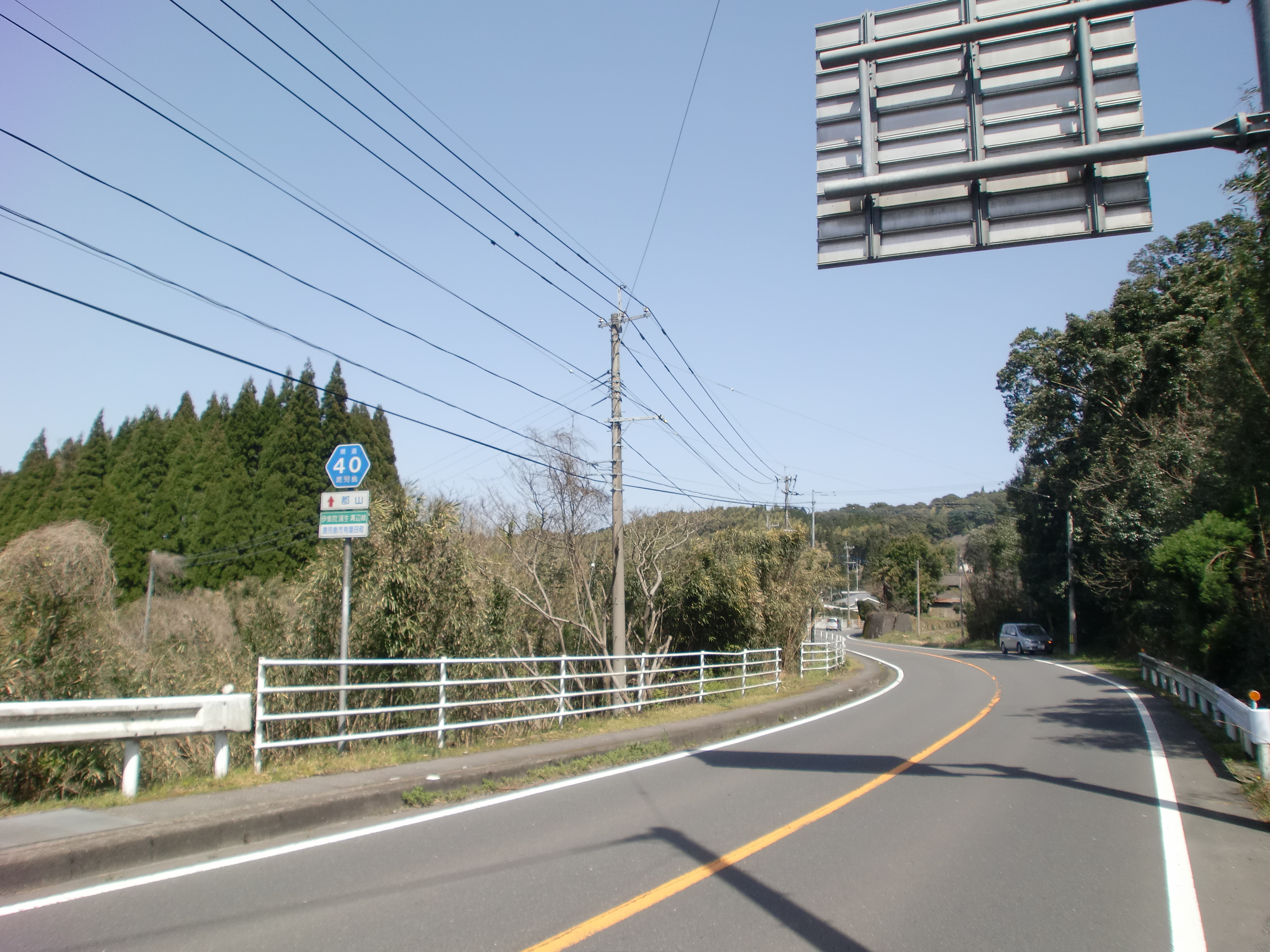 Kagoshima Prefectural Road No.40:Ijuin-Kamo-Mizobe Line (Ariyada-cho, Kagoshima City, Kagoshima, Japan)